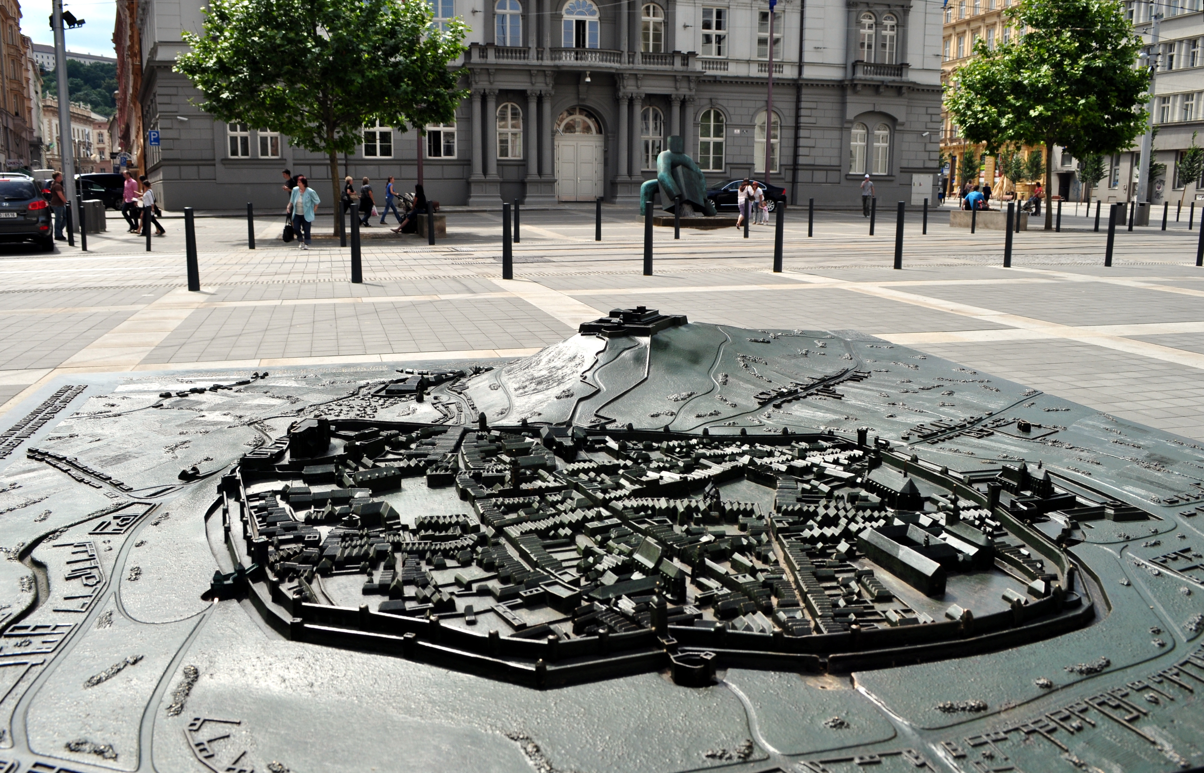 Model of Brno in the 17. century